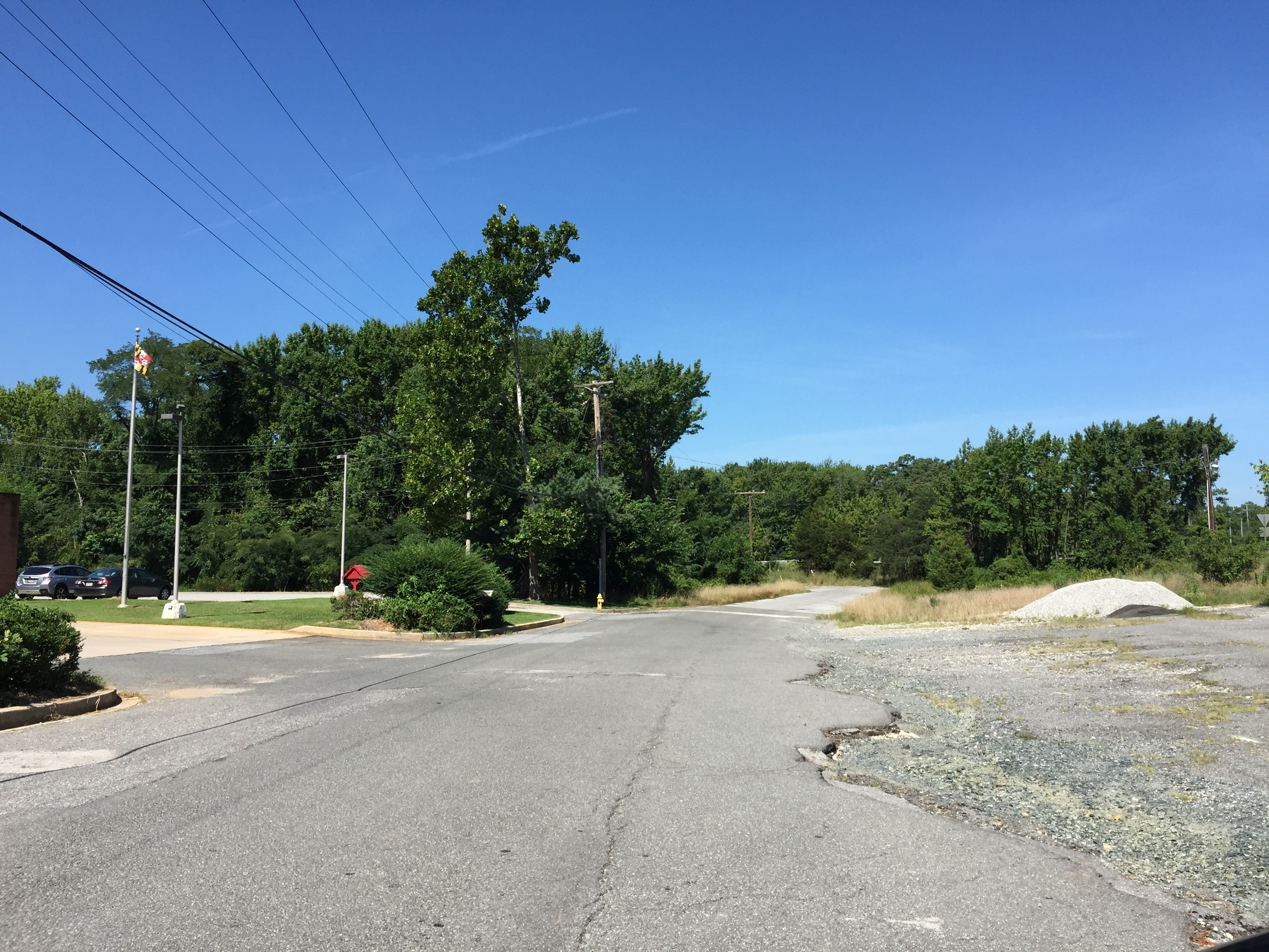 View west along Maryland State Route 917 (Max Blobs Park Road) at Old Road in Fort Meade, Anne Arundel County, Maryland